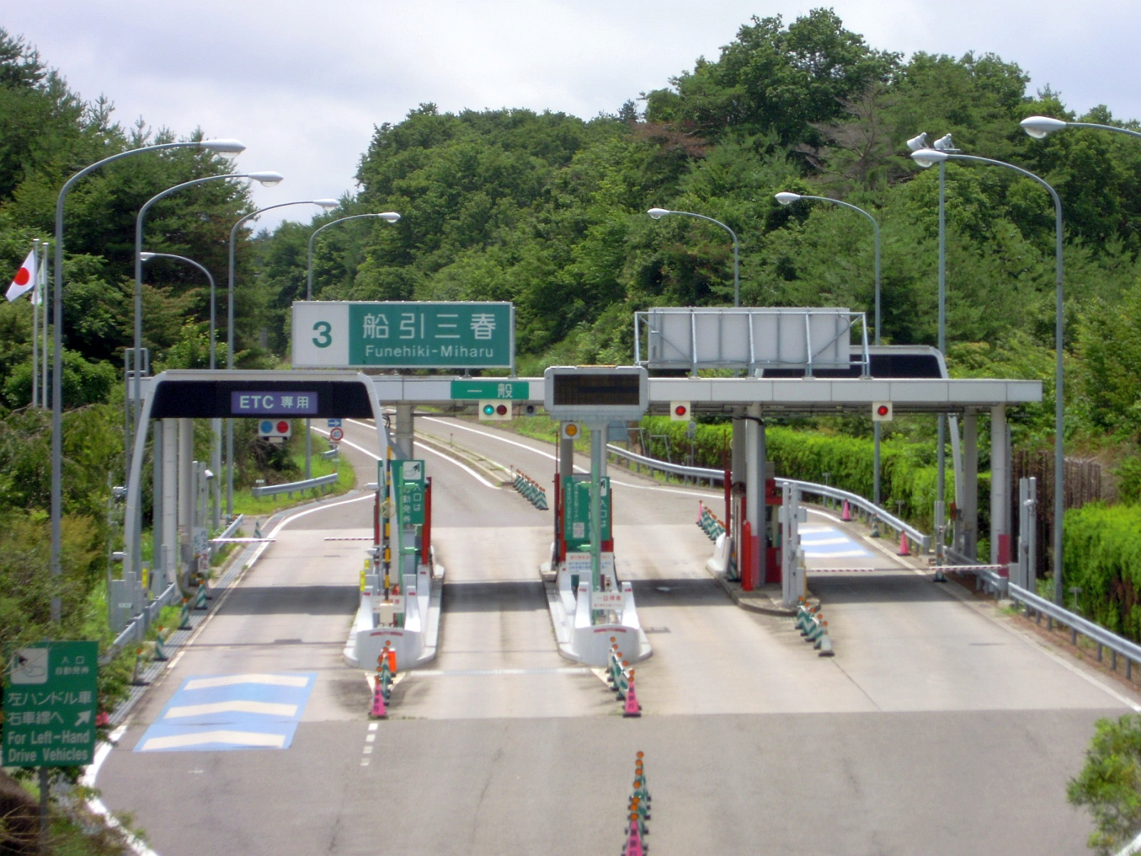 This Interchange, Funehiki-Miharu Interchange, is on Ban-etsu Expressway, in Tamura City, Fukushima Prefecture, Japan.